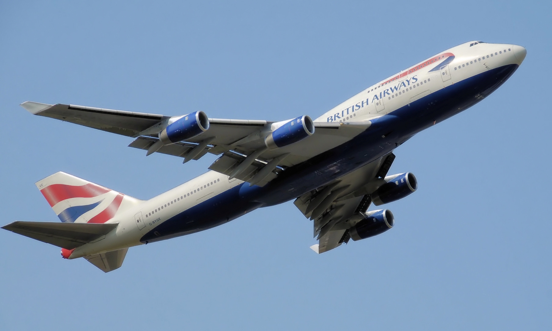 British Airways Boeing 747-400 (G-BYGE) takes off from London Heathrow Airport, England.